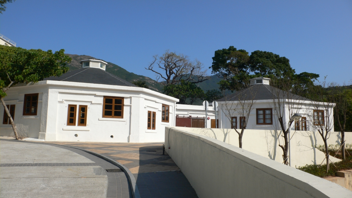 Old cowsheds of H.K. Dairy Farm in Pok Fu Lam, Hong Kong. Now it is a part of HKAPA Bethanie campus.